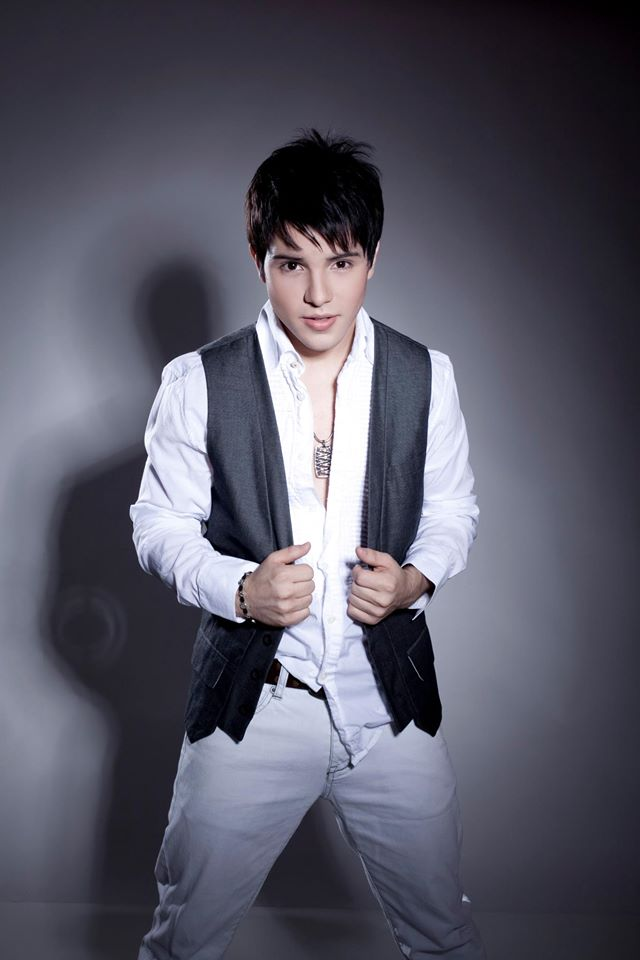 Jo Joe en 2014